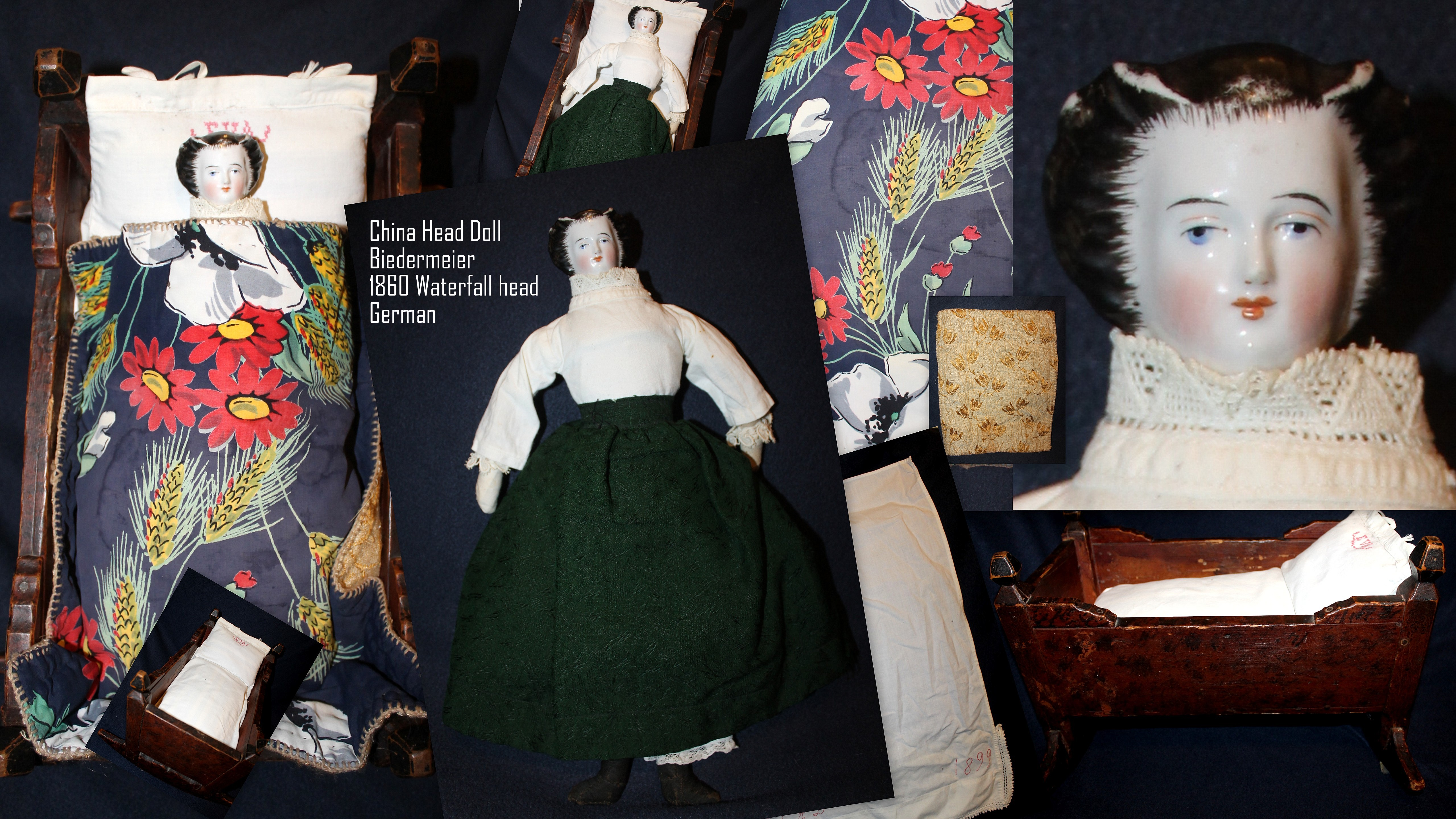 "Eva" China head doll, 1860 biedermeier German, waterfall head ,porcelain shoulder head,embroidery and wood cot,a propertyn of my european art collection